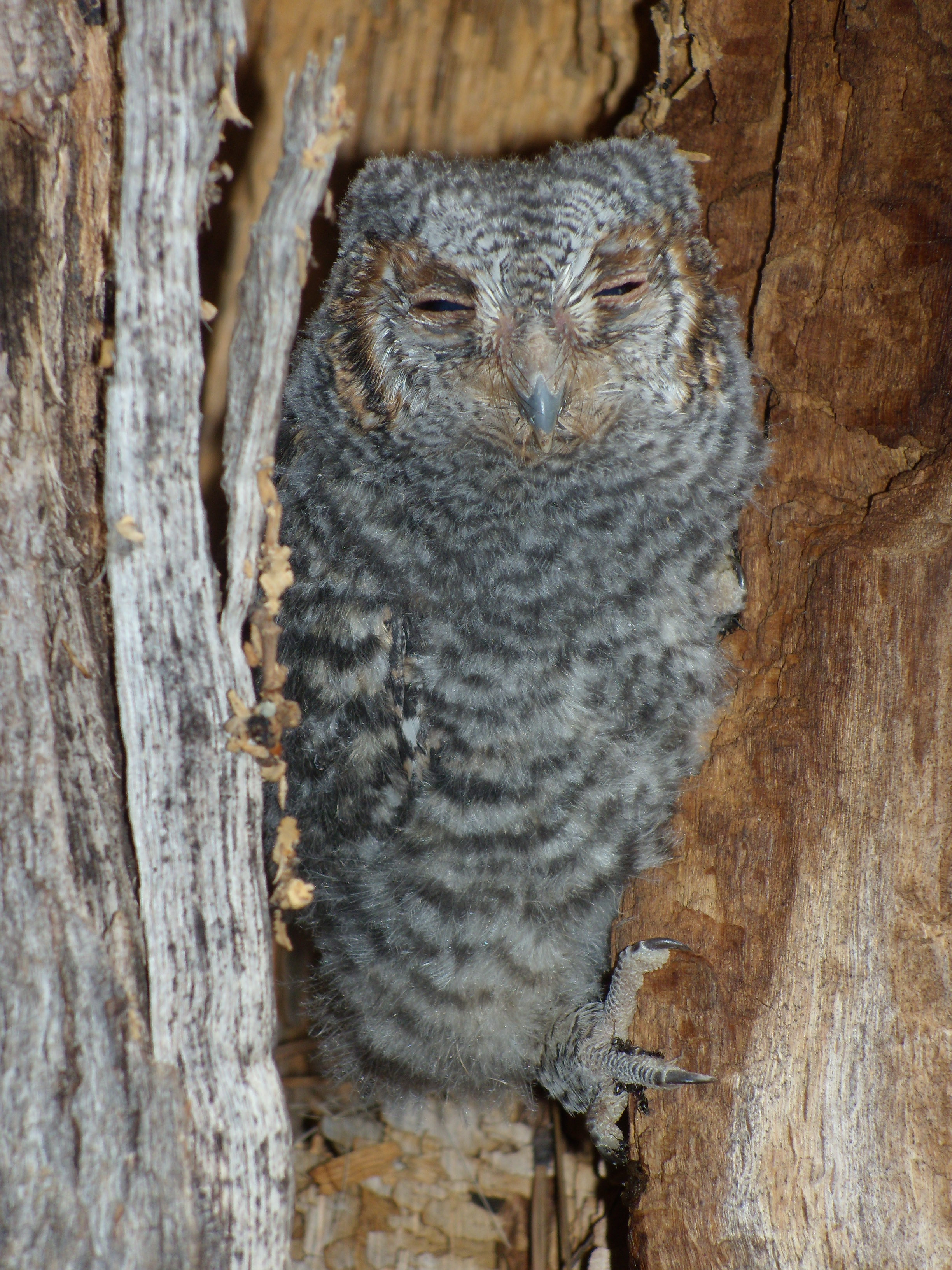 This juvenile flammulated owl (Psiloscops flammeolus) was found by firefighters in the hallow of a tree that had been struck by lightning and caught fire. Before they cut down the tree, they moved the young owl to a nearby tree. Photo taken July 23, 2010. Credit: USDA Forest Service, Coconino National Forest.